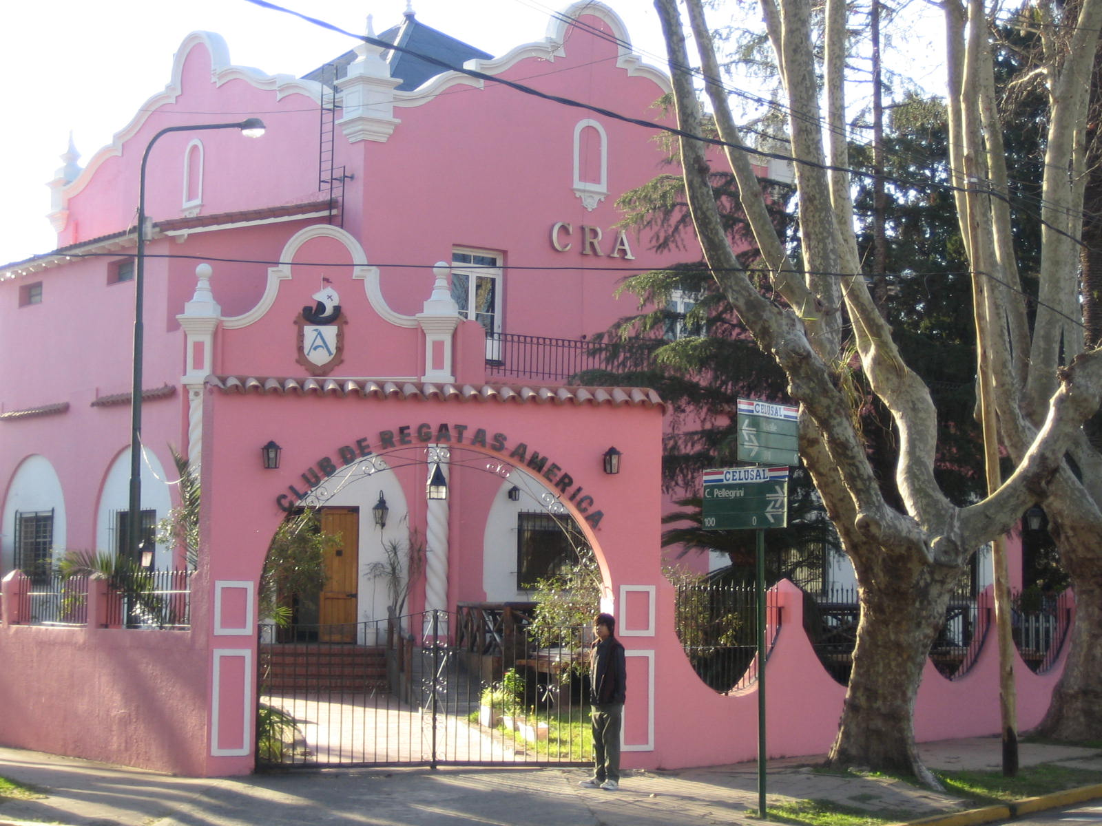 Club de Regatas América - El Tigre - Buenos Aires - Argentina